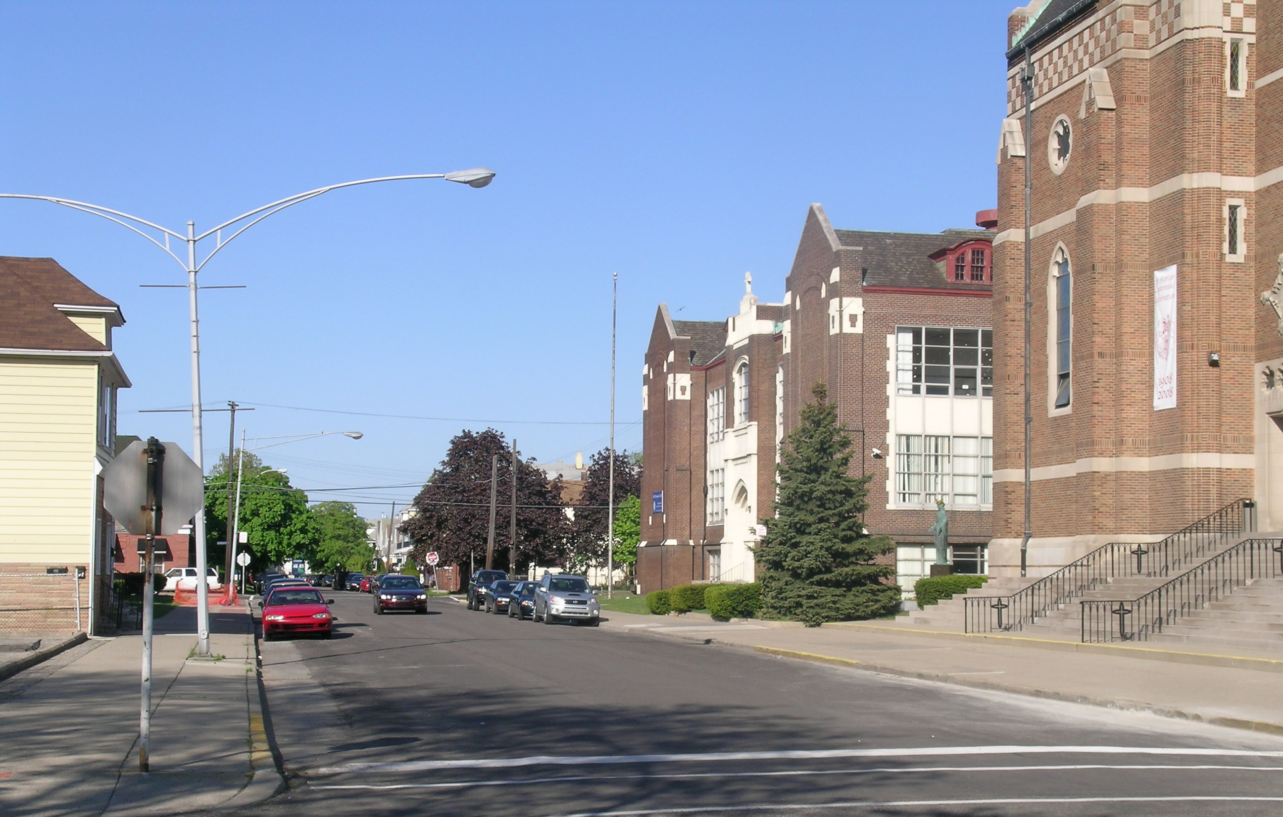 The St. Florian Historic District in Hamtramck, Michigan, United States, is listed on the US National Register of Historic Places (NRHP). In this image, St. Florian Catholic Church is at the extreme right. NRHP reference number 84001865